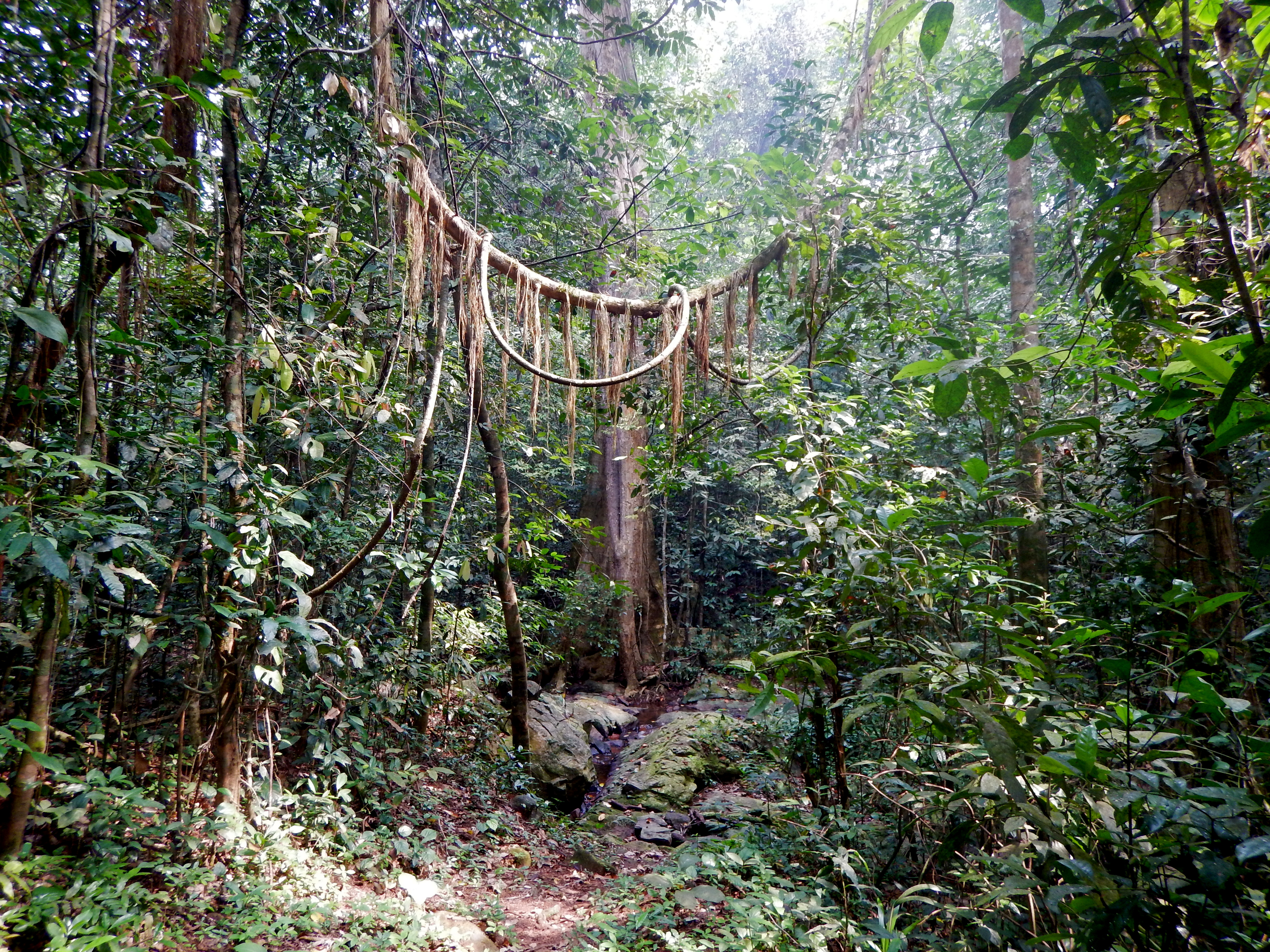 Kammadam Kaavu is a sacred grove situated in Kasargode, the northern most state of Kerala, India. This grove is more than 50 acres in area and believed to be the largest in the state. There are 5 small streams originating from the grove and flow together to join the Karyangod River outside the grove. Peculiar myristica swamps are also seen here.